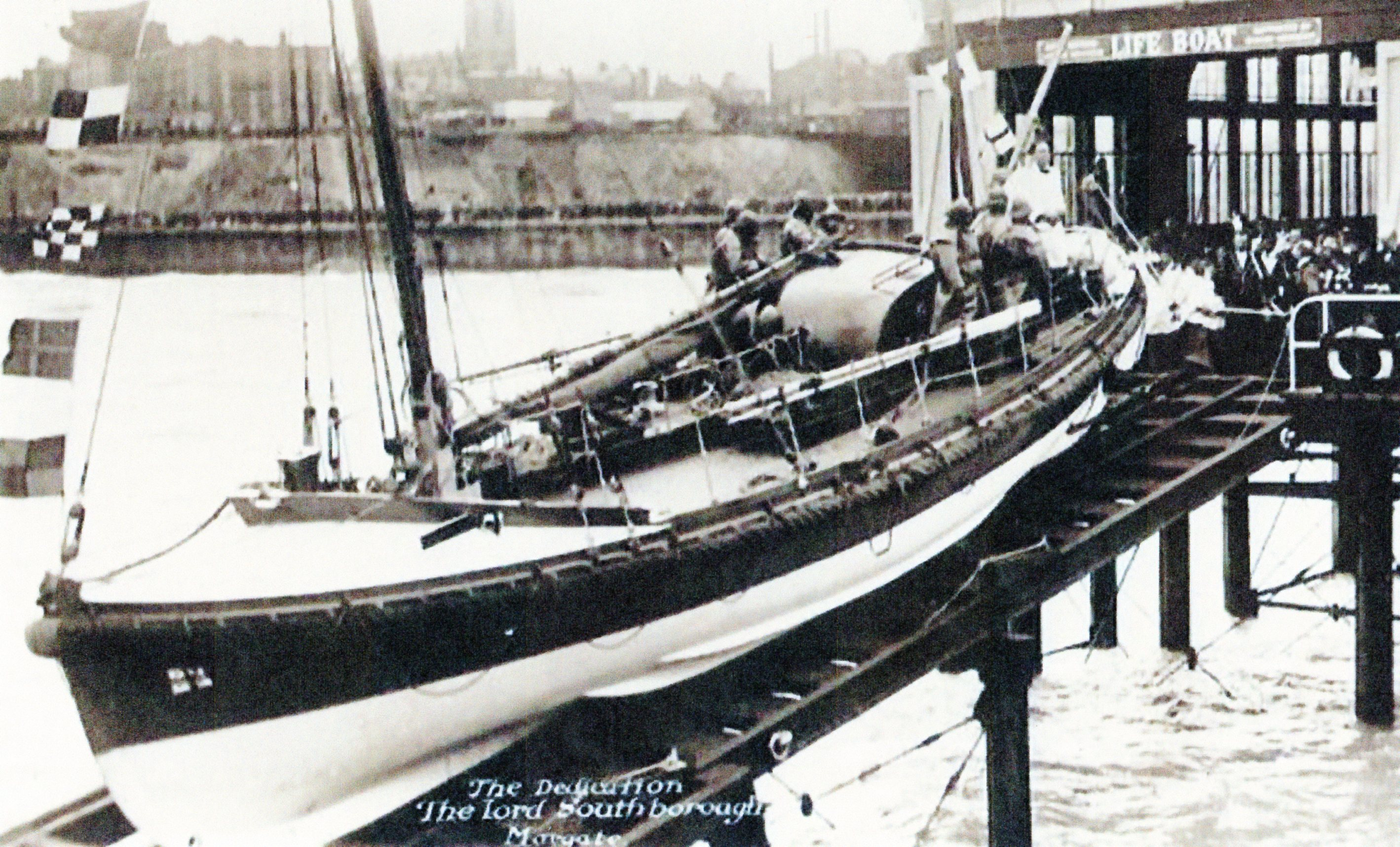 Post card image dated cica 1925 of the Margate lifeboat Lord Southborough, on the slipway outside her boathouse at the time of her dedication